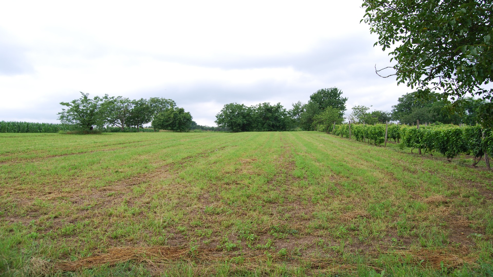 Archeological site Grad or Dupljaja, near Bela crkva